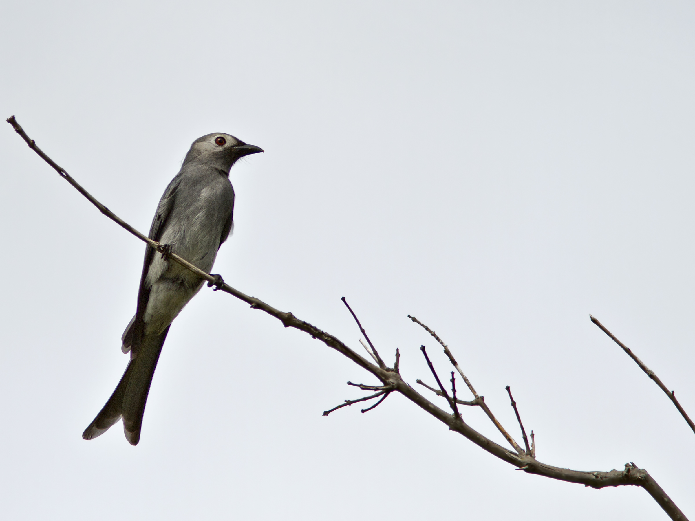 Ashy Drongo at raptor hill (Chumphon) Thailand